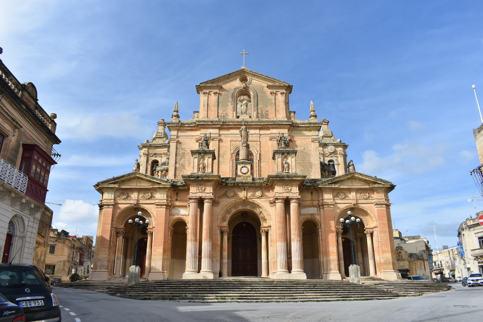 Parish Church of St Nicholas of Bari This media is about Maltese cultural property with inventory number 02106.